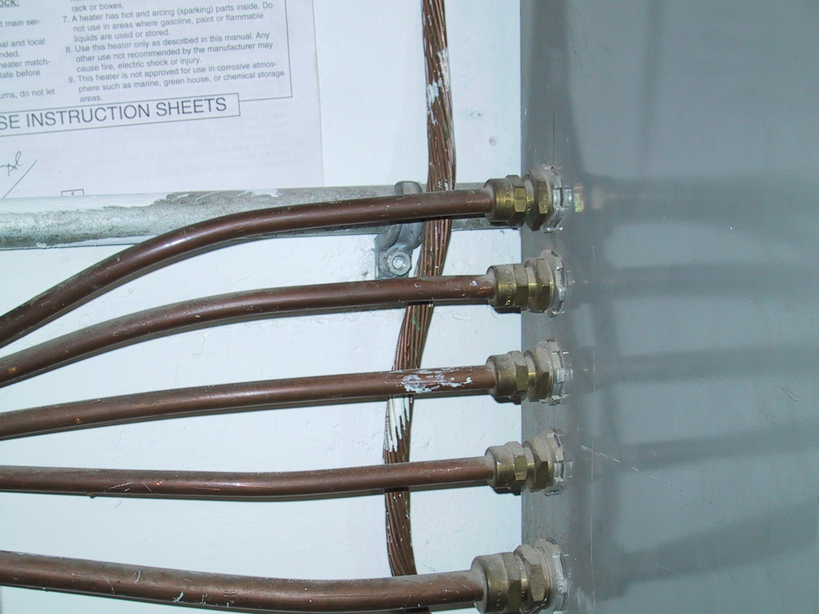 MI Cable, or Mineral-insulated copper clad cables. Each copper-sheathed cable carries three phase power in a 480 V circuit. Mineral-insulated cables are attached to the panelboard with special fittings. Behind the cables a bare stranded copper bonding conductor can be seen, which bonds electrical equipment to earth ground. Taken June 2001, at the E.B. Campbell dam in Saskatchewan. Note: Higher resolution version replaces VGA res version. Captioned As {}